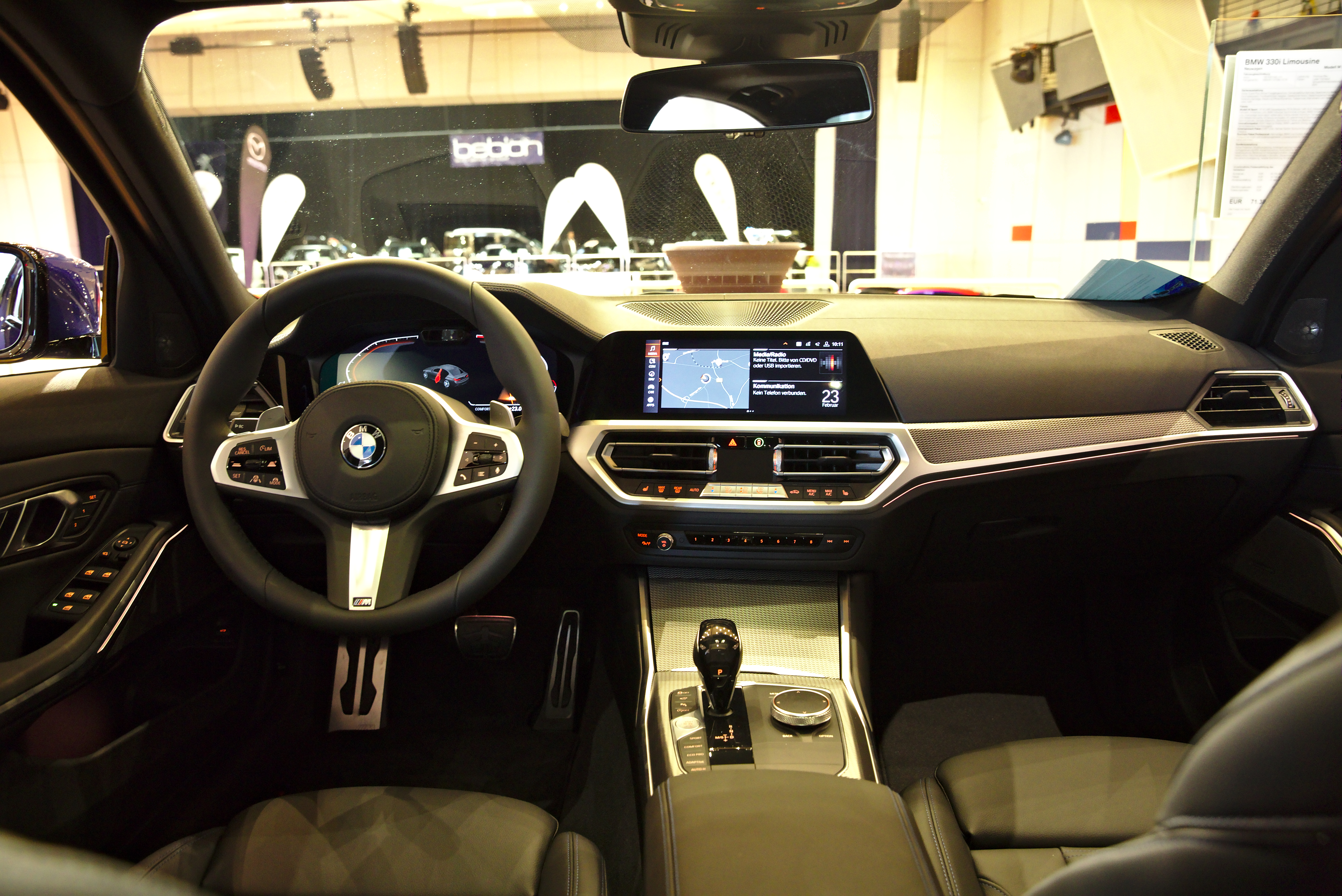 BMW 330i at Autosalon Filderstadt 2019